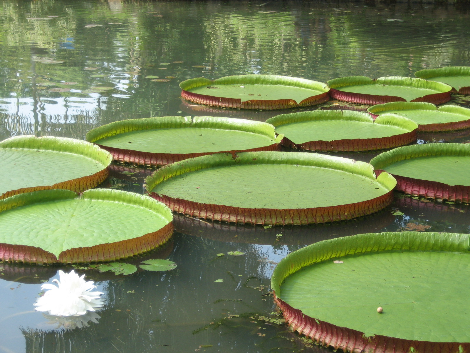 Victoria amazonica in Rio de Janeiro's botanical garden.